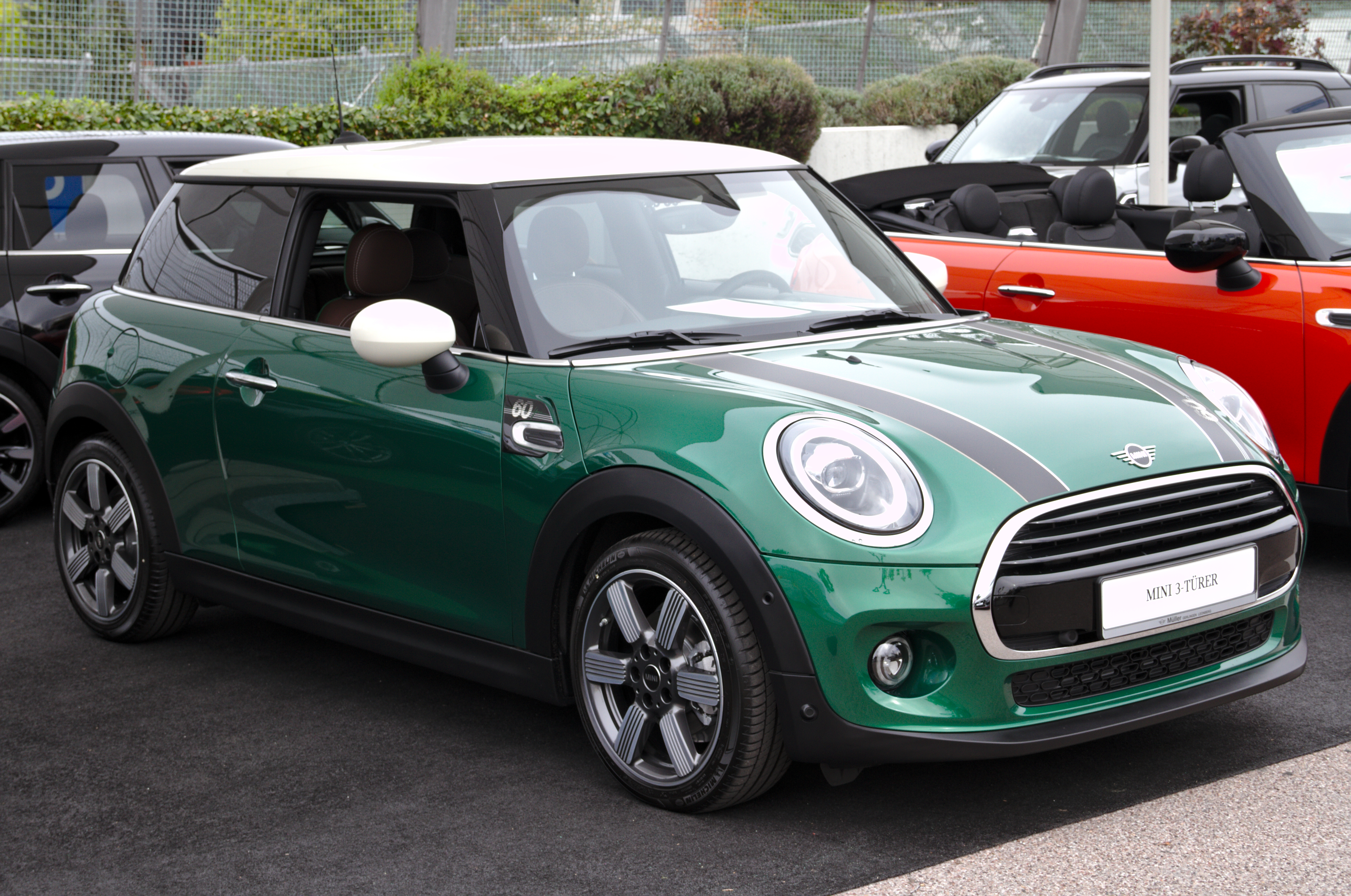 Mini_60_Years_Edition at Leonberger Autoschau 2019